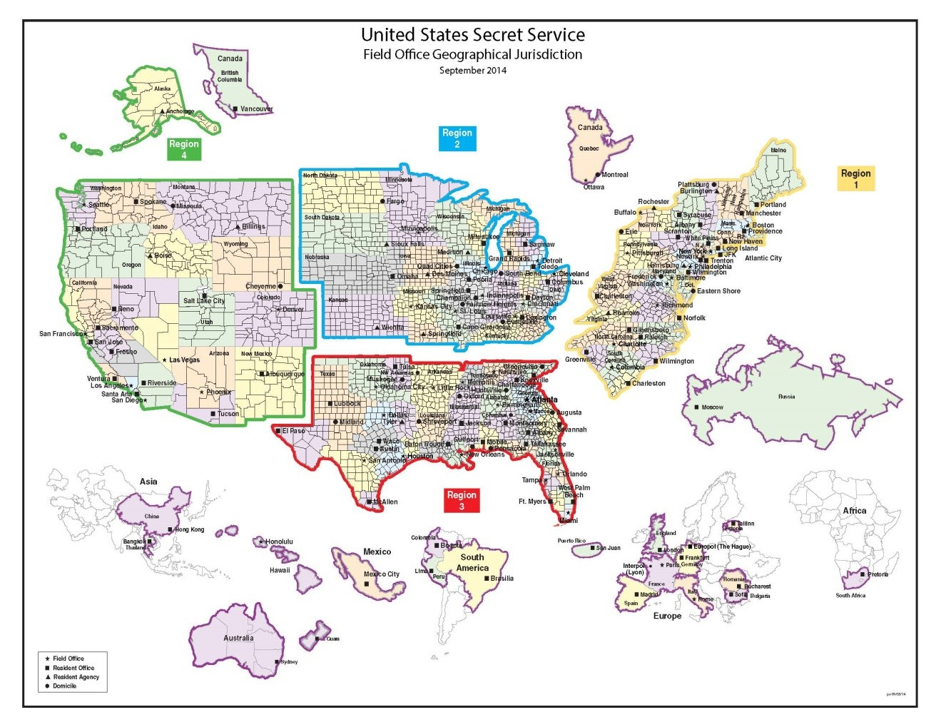 Secret Service Field Office Locations